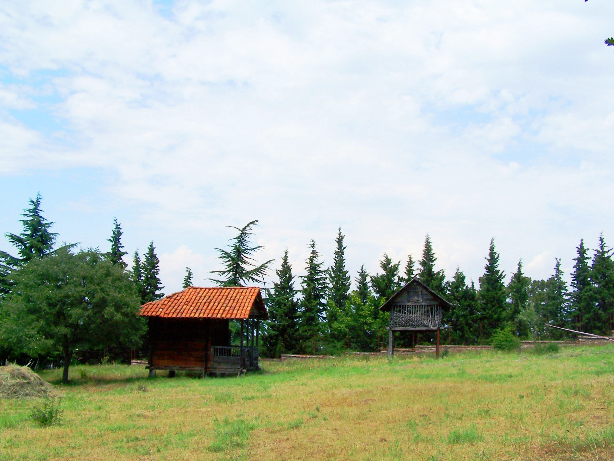 Houses at the Ethnographic museum, Tbilisi